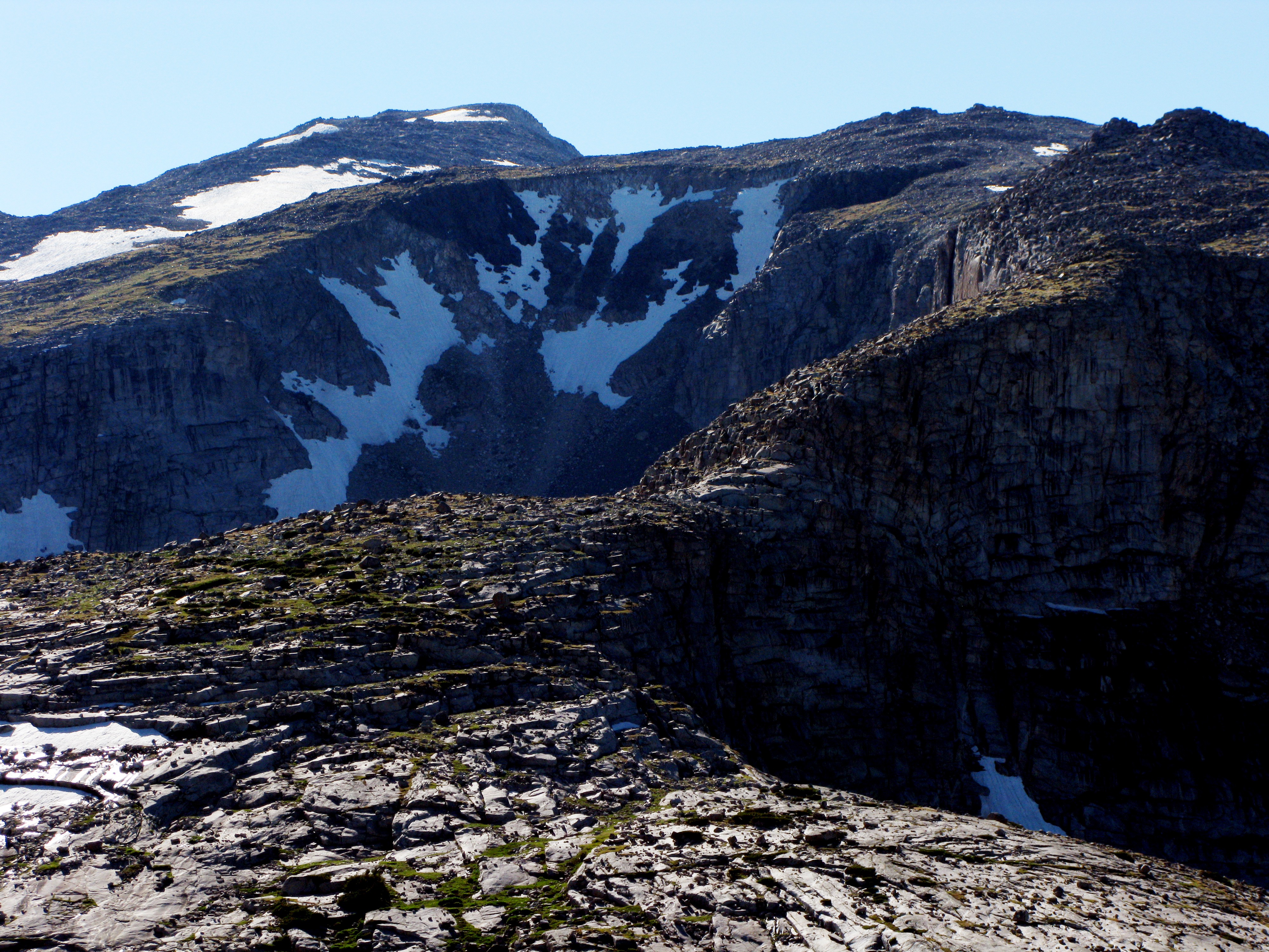 Photo taken near the base of Wind River Peak in 2008